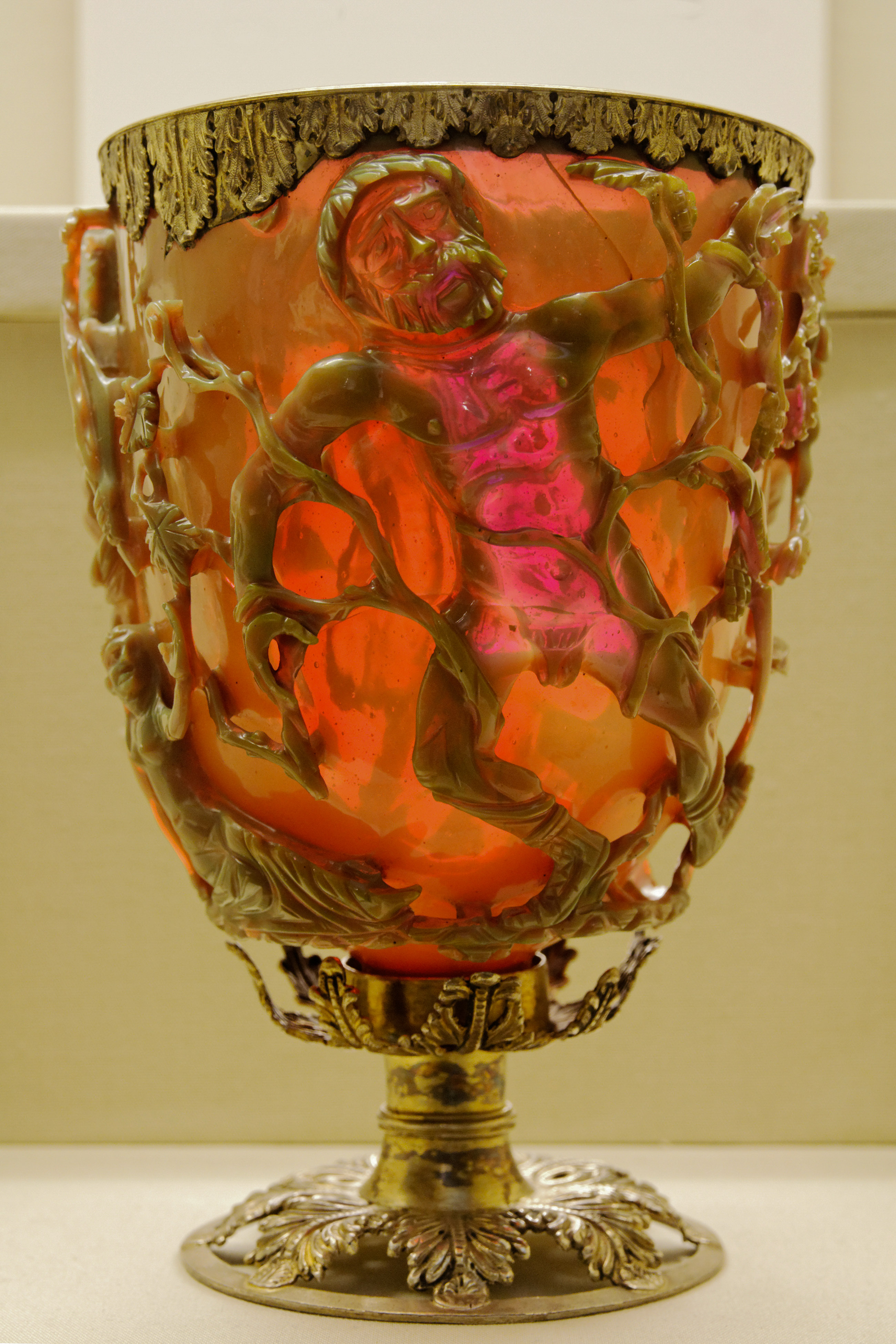 The madness of King Lycurgus; side A of a Late Roman cage cup in dichroic (changing colour) glass, here glowing glowing red because light shines through it.